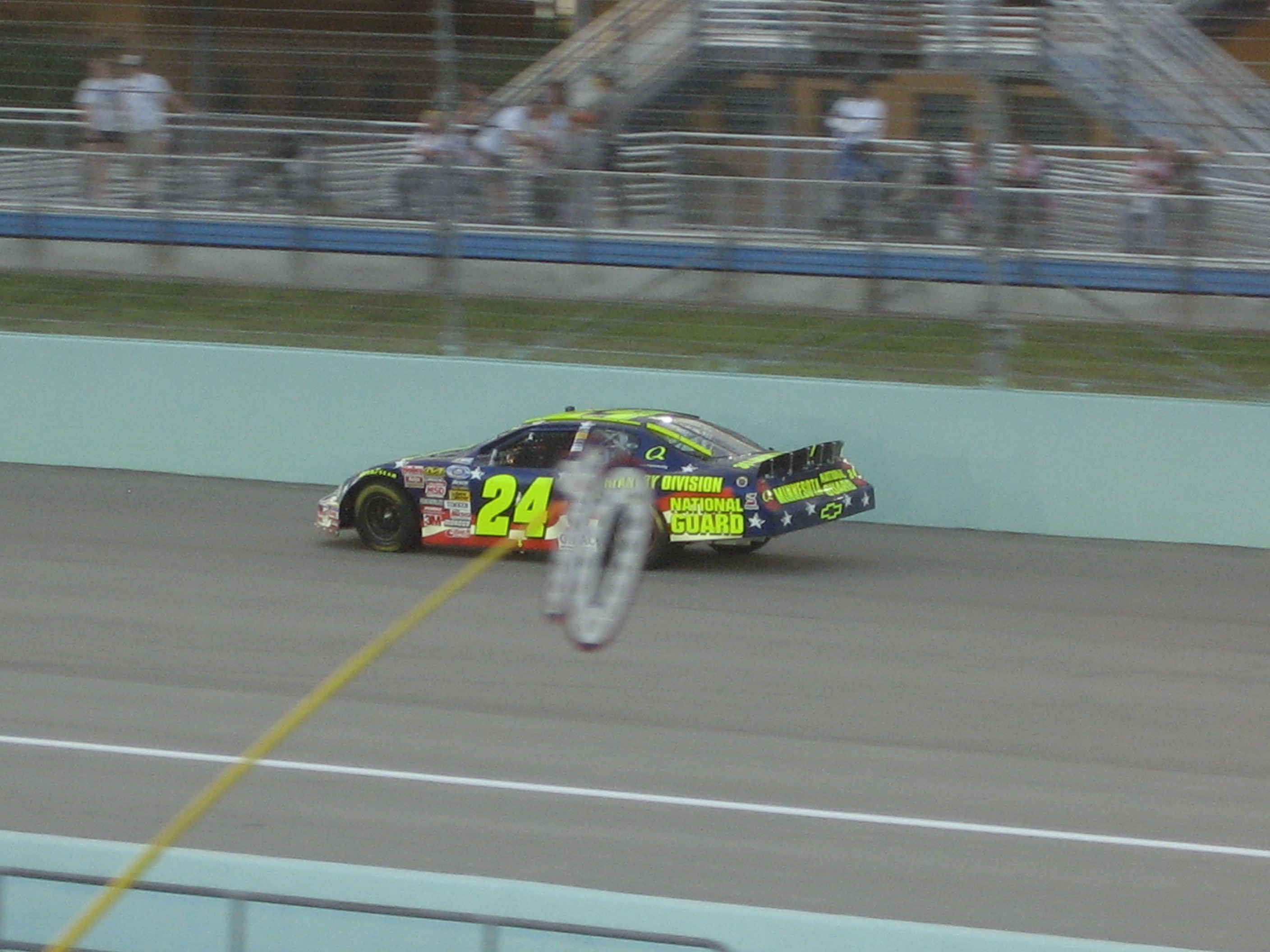 Casey Mears racing in the 2007 Ford 300 at the Homestead-Miami Speedway. cr. Chris Green